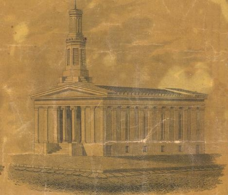 An early engraving of Government Street Presbyterian Church in Mobile, Alabama. Built c. 1836.